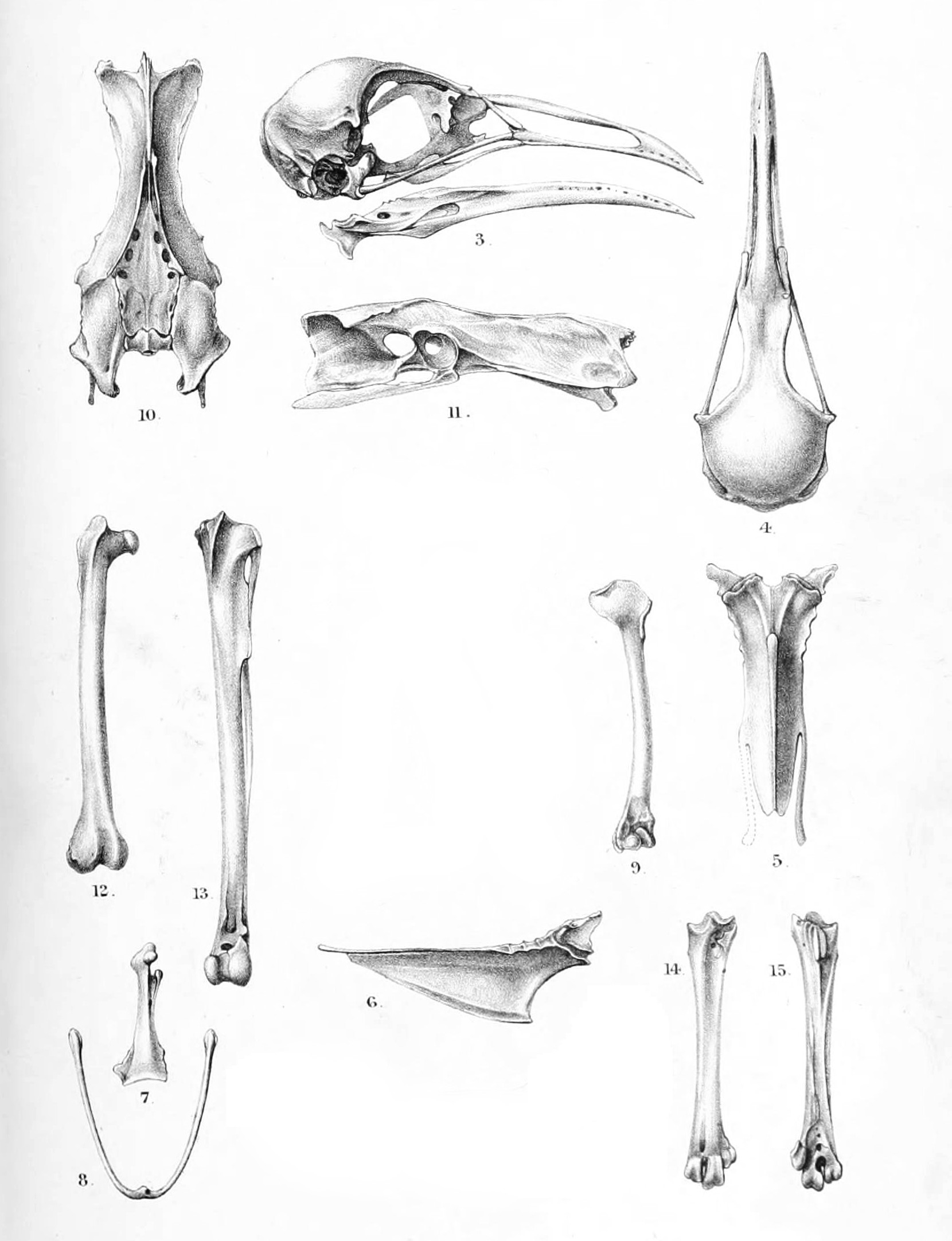 « Nesolimnas dieffenbachi » = Gallirallus dieffenbachii (Dieffenbach's Rail) 3. Skull from side 4. Skull from above 5. Sternum from below 6. Sternum from side 7. Coracoid from front 8. Furculum 9. Humerus 10. Pelvis from above 11. Pelvis from side 12. Femur from front 13. Tibio-tarsus from front 14. Tarso-metatarsus from front 15. Tarso-metatarsus from behind